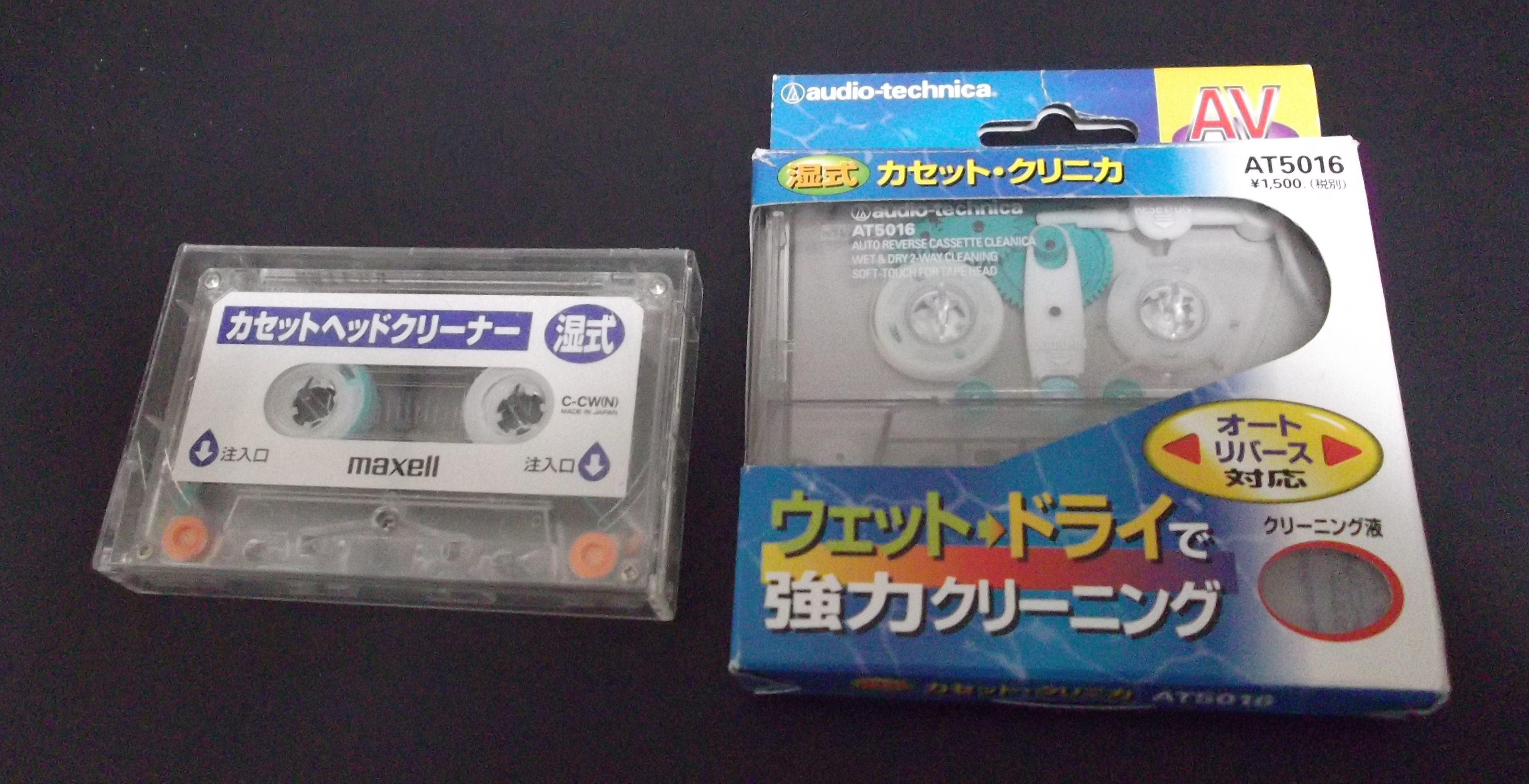 "Wet head cleaner" (Google translation of filename) for Compact Cassette players